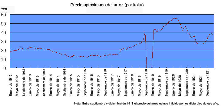 Rice price in Japan from 1912 to 1921